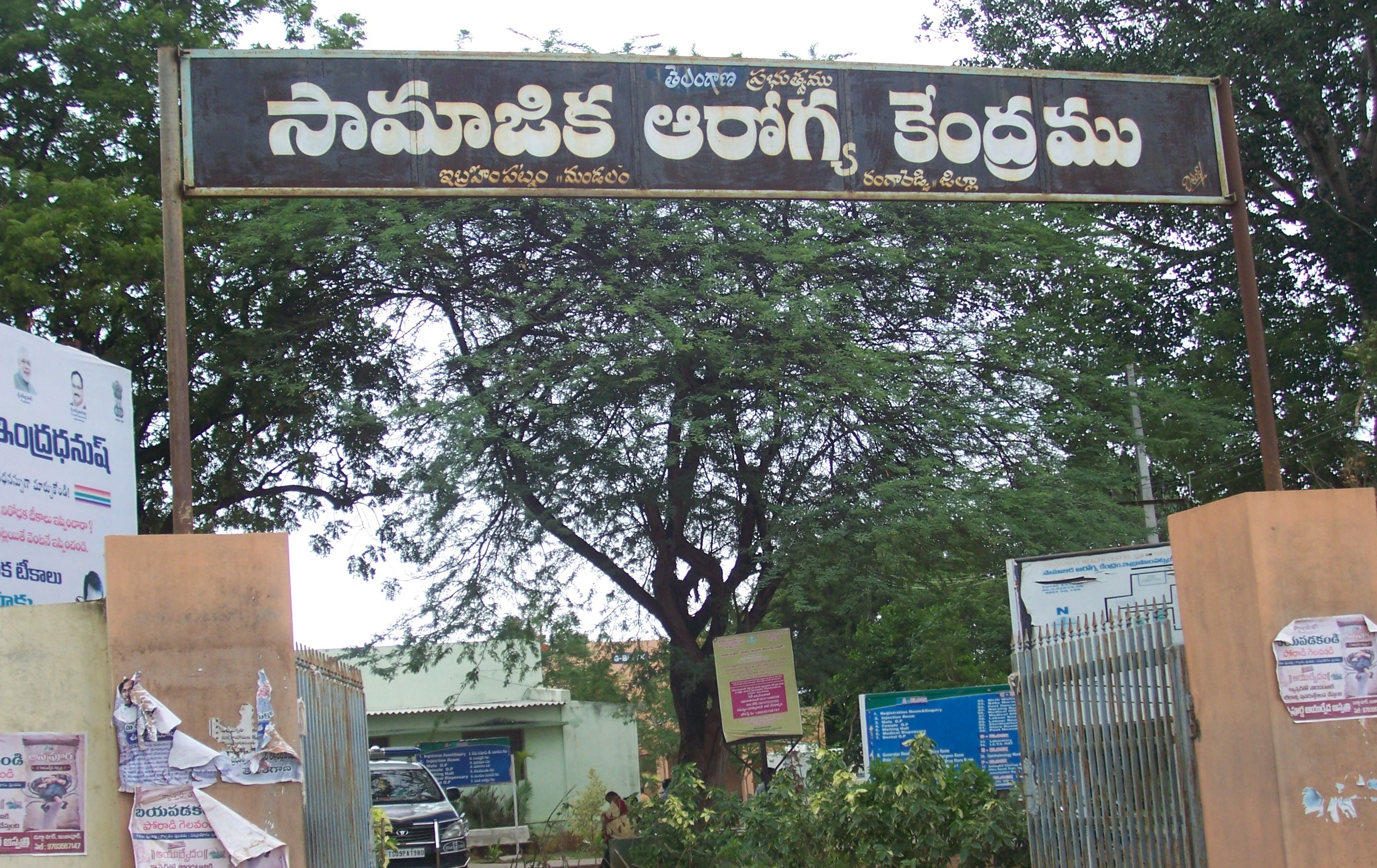 village health centre